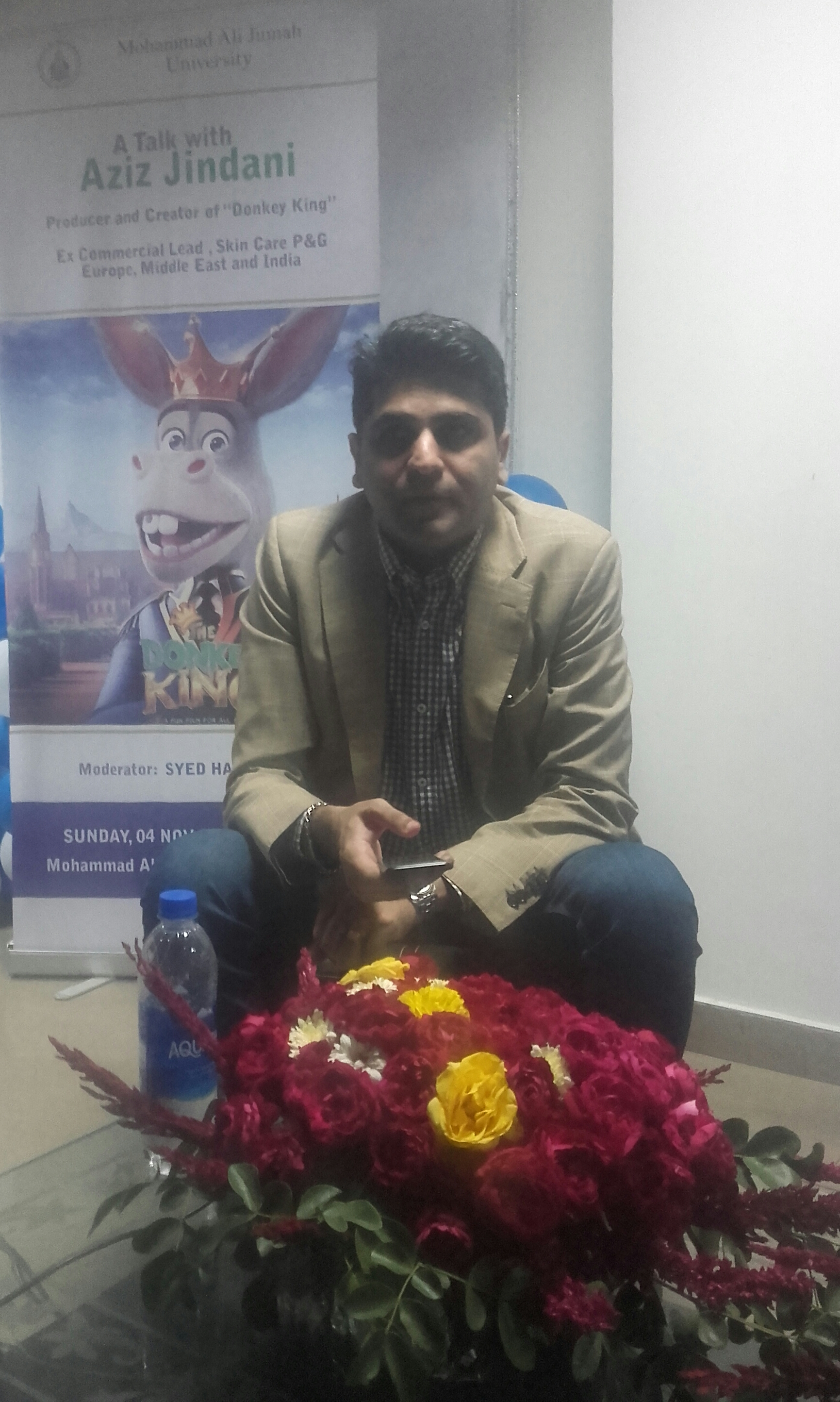 Aziz Jindani at Mohammad Ali Jinnah University, Karachi on 4 November 2018 for the animated film The Donkey King's promotion.